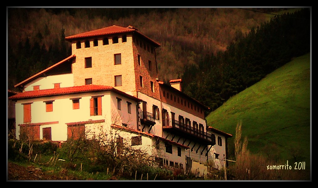 Zabale palace. Ordizia, Gipuzkoa. Basque Country.